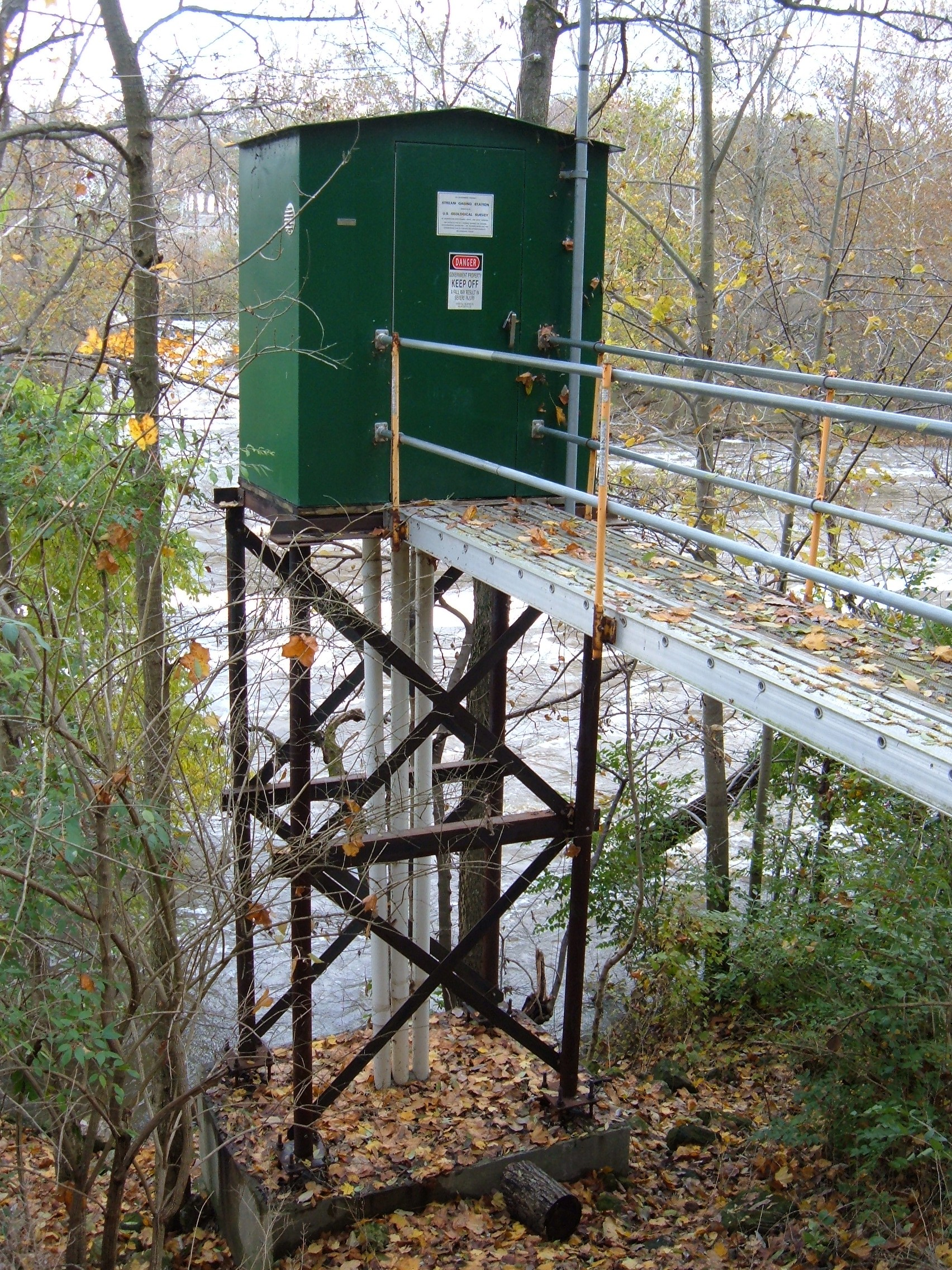 USGS gaging station 03221000 on the Scioto River below O'Shaughnessy Dam near Dublin. Self-made photo.